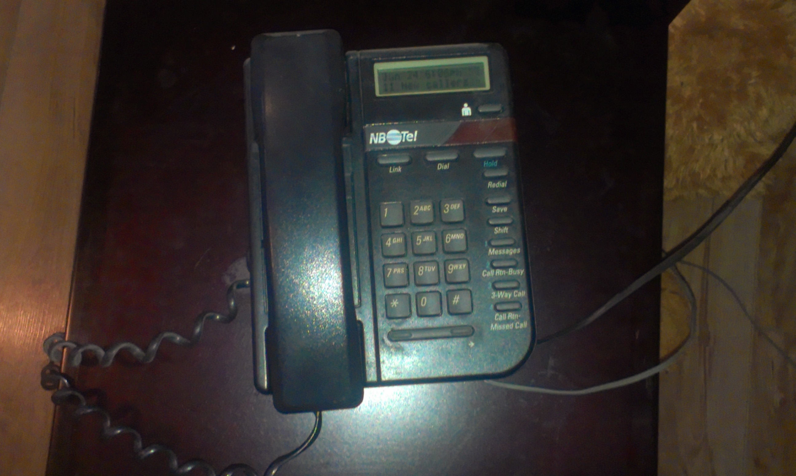 An NBTel telephone at a private residence in Saint John, New Brunswick.